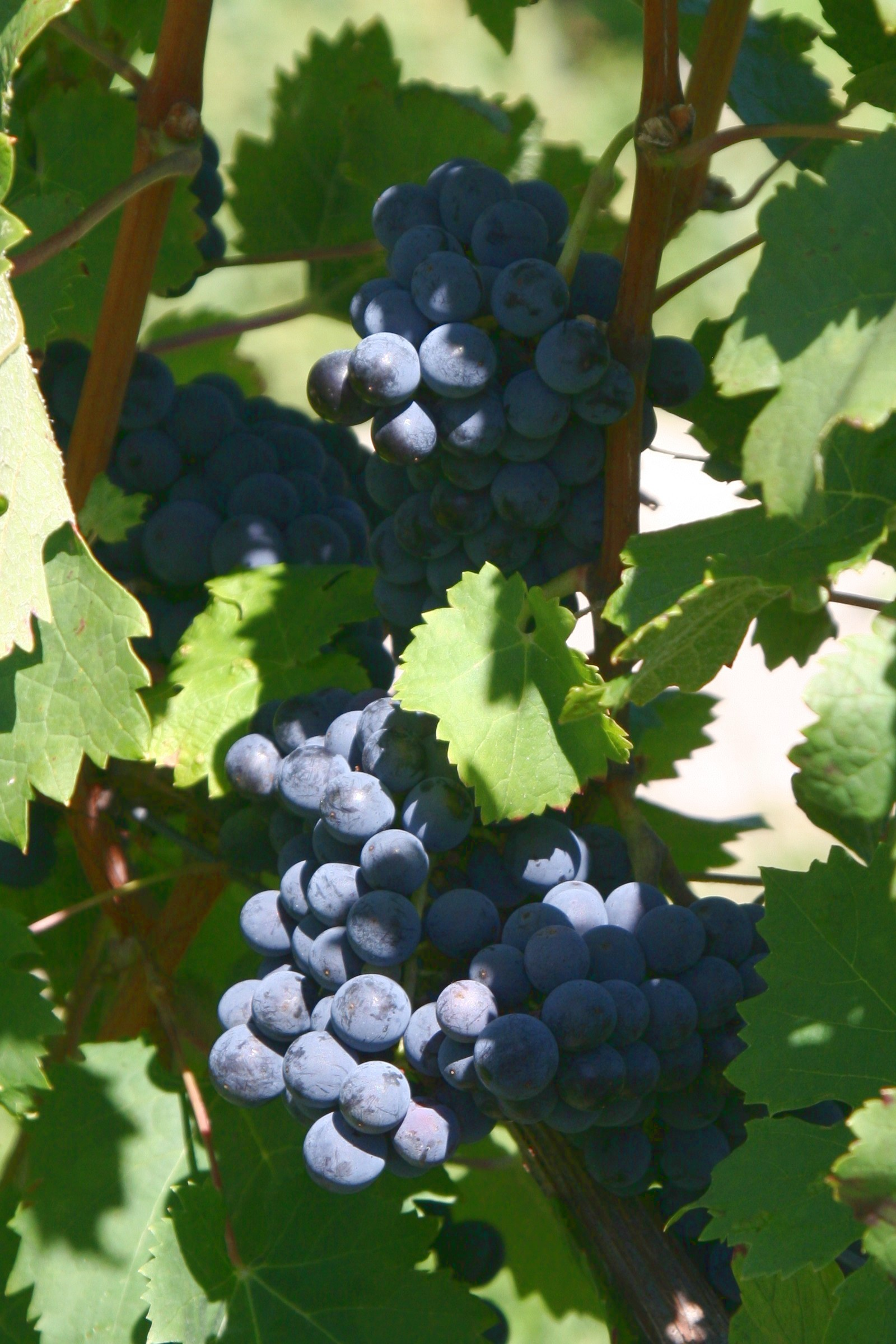 Grapes and leaves of the grape variety Cabernet Franc, photographed at the viticulture trail on the Schemelsberg hill in Weinsberg